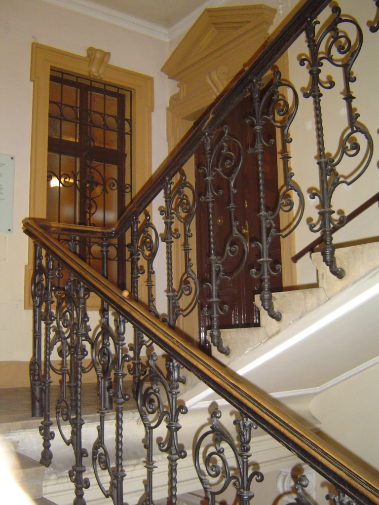 Entrance to Freuds consulting room, Berggasse, Vienna, Austria.